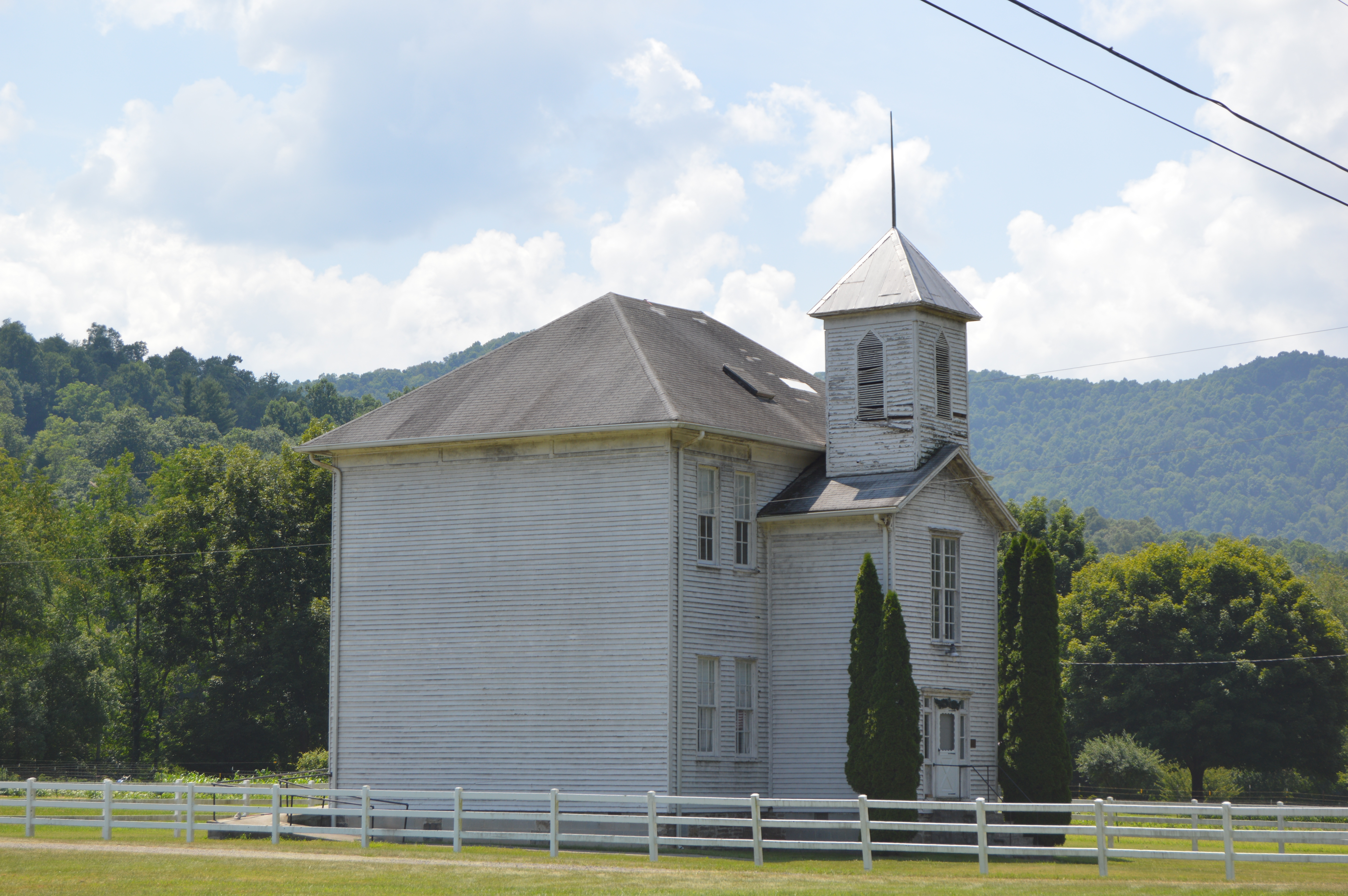 Eastern side and front of the former St. George Academy, located on Holly Meadows Road at St. George in Tucker County, West Virginia, United States. Built in 1886, it is listed on the National Register of Historic Places.